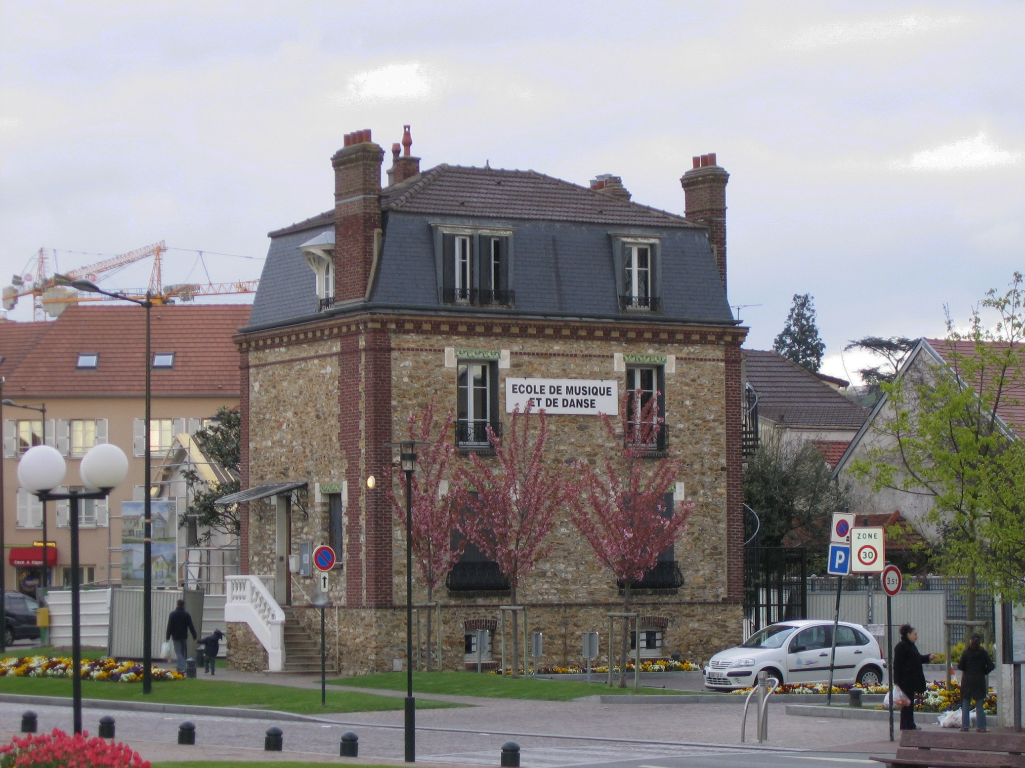 Soisy-sous-Montmorency, France, Music and Dance School